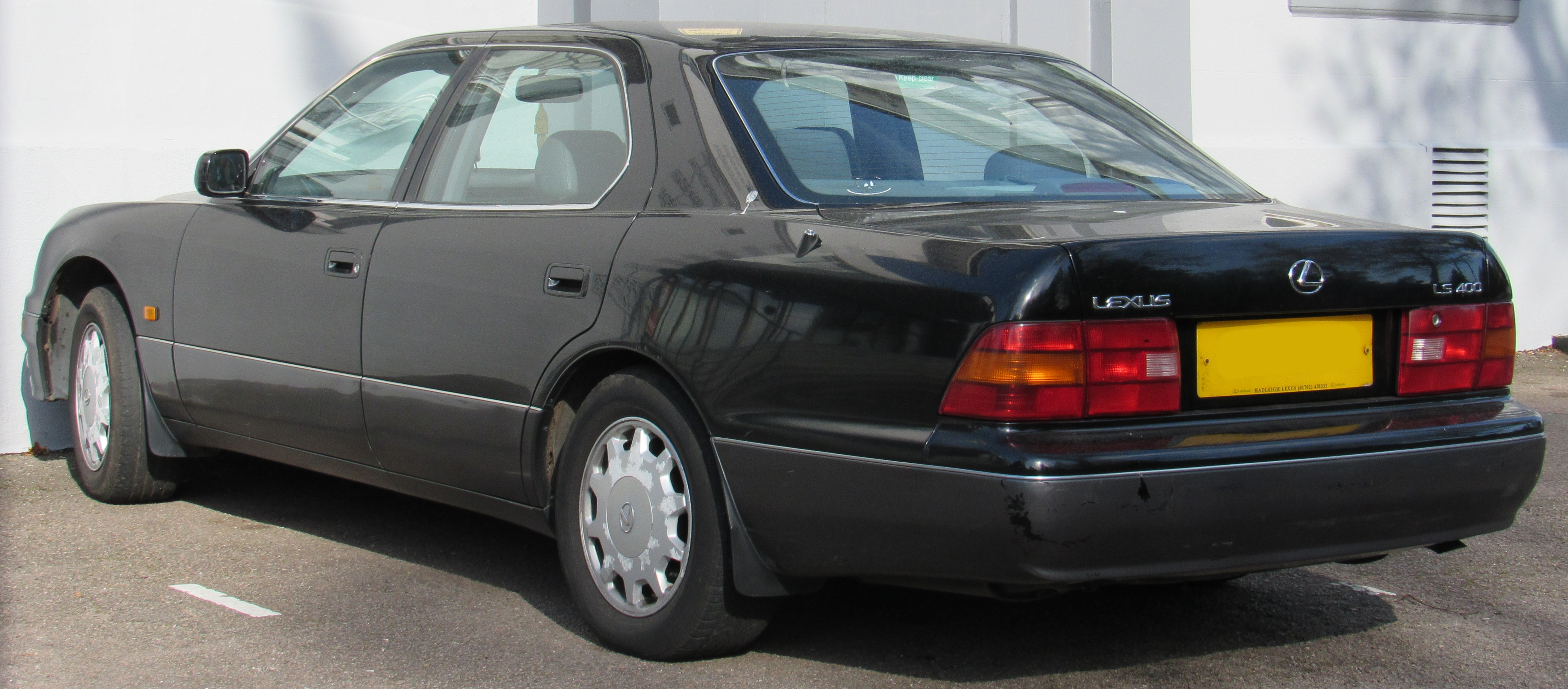 1997 Lexus LS 400 Automatic 4.0 Taken in Leamington Spa